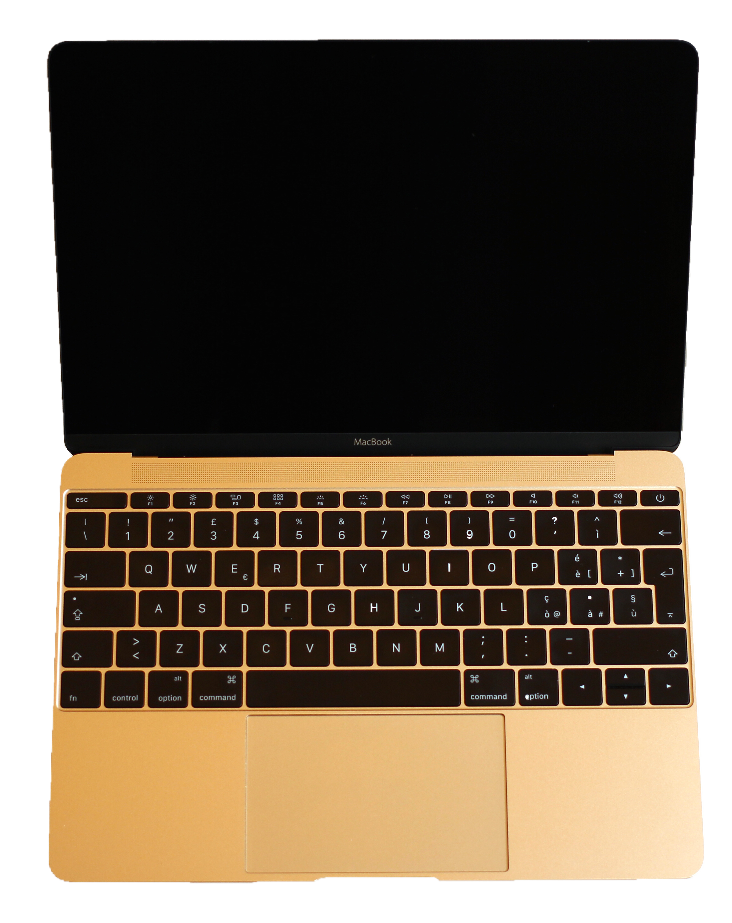 Photo of a MacBook with Retina Display (2015 model)